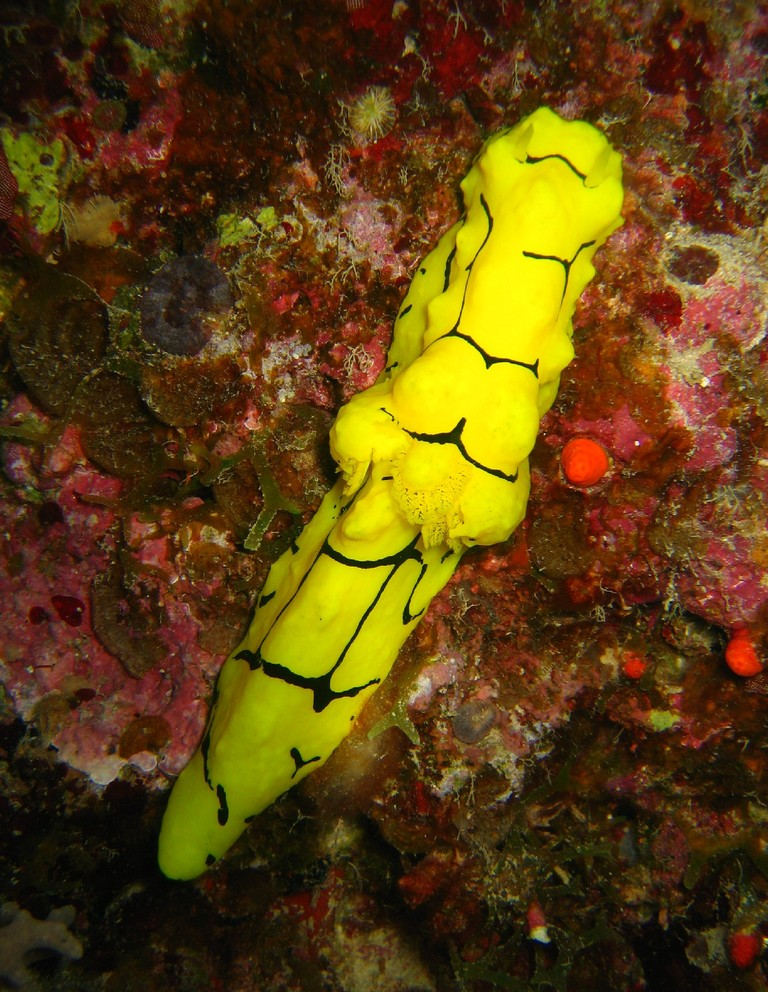 Minor Notodoris (Notodoris minor). Seventh Heaven, Ribbon Reefs, Great Barrier Reef